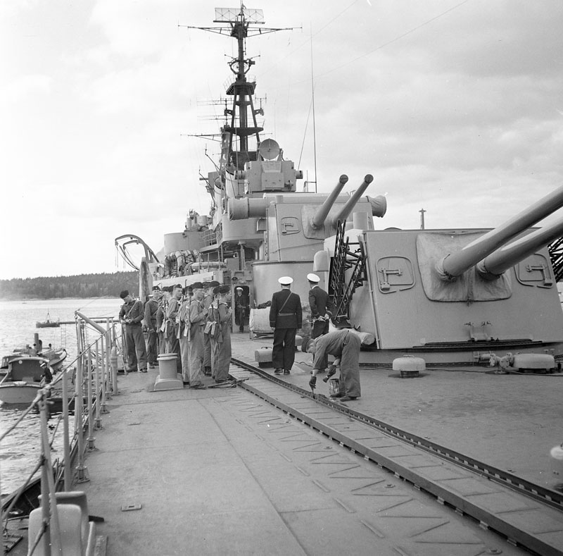 Swedish cruiser HMS Göta Lejon.